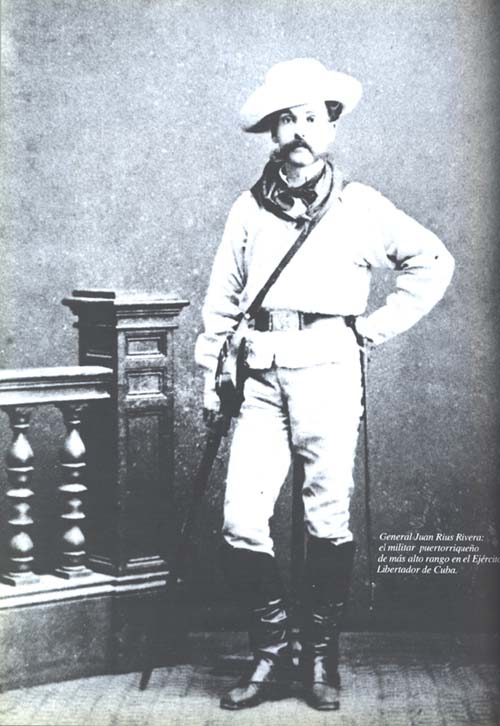 Puerto Rican military with highest rank in the Cuban Liberation Army